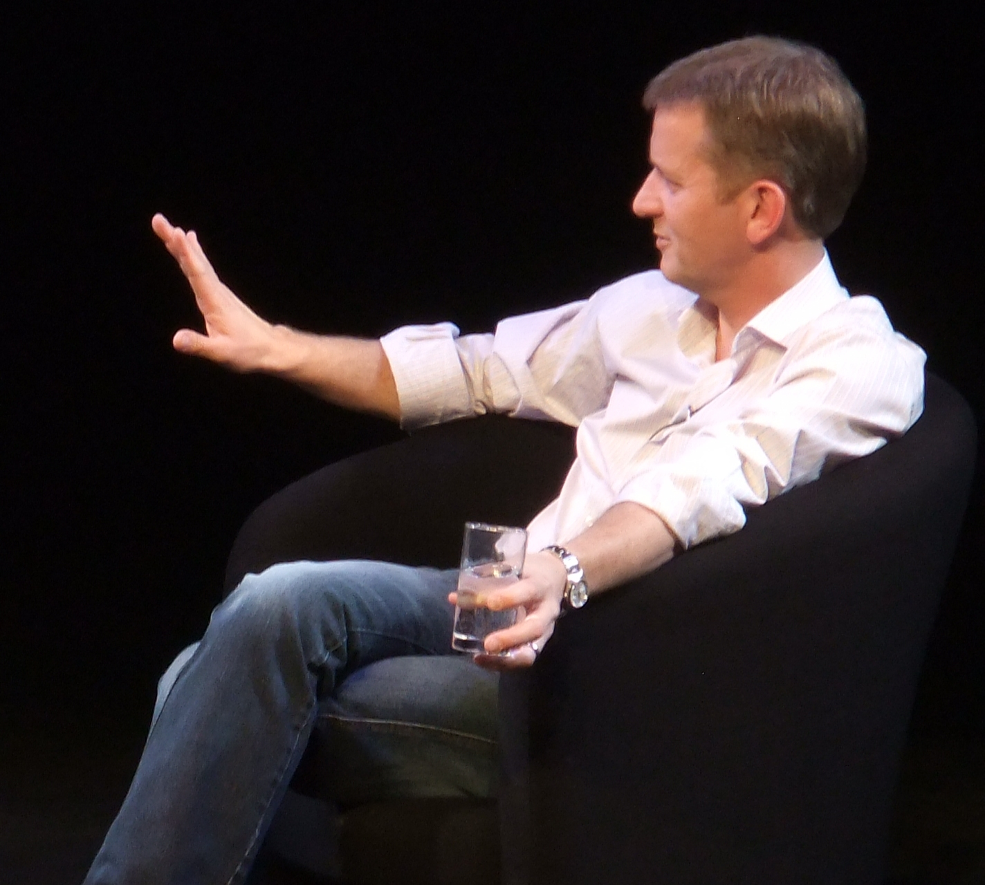 Jeremy Kyle cropped from a photo with Richard Bacon, at Radio Festival 2010.